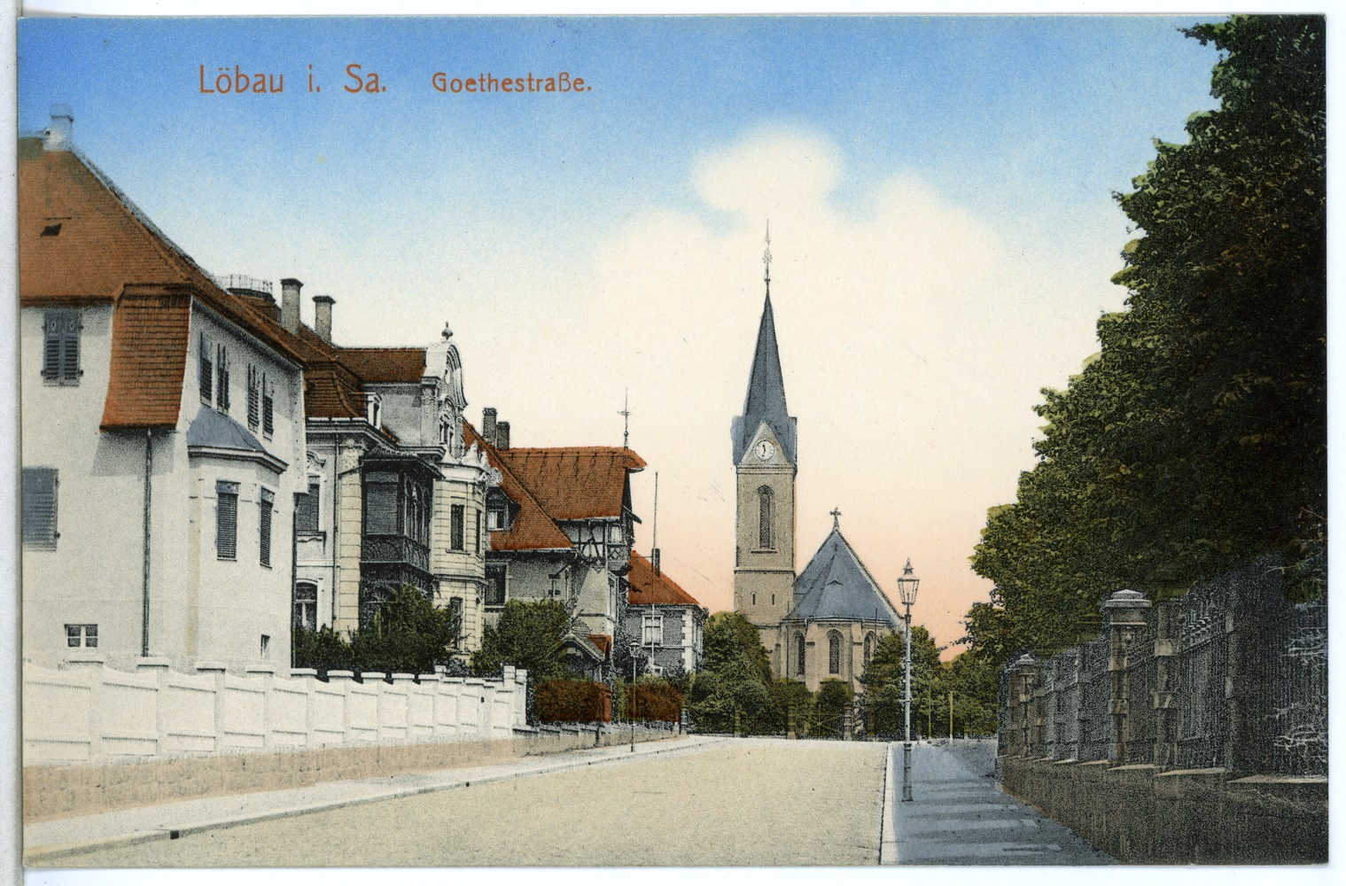 This postcard is from publisher Brück & Sohn in Meißen ( This postcard has a unique number 15118 and is available in a higher resolution at the publisher. This images was uploaded in a cooperation project between Wikipedians and the publisher.